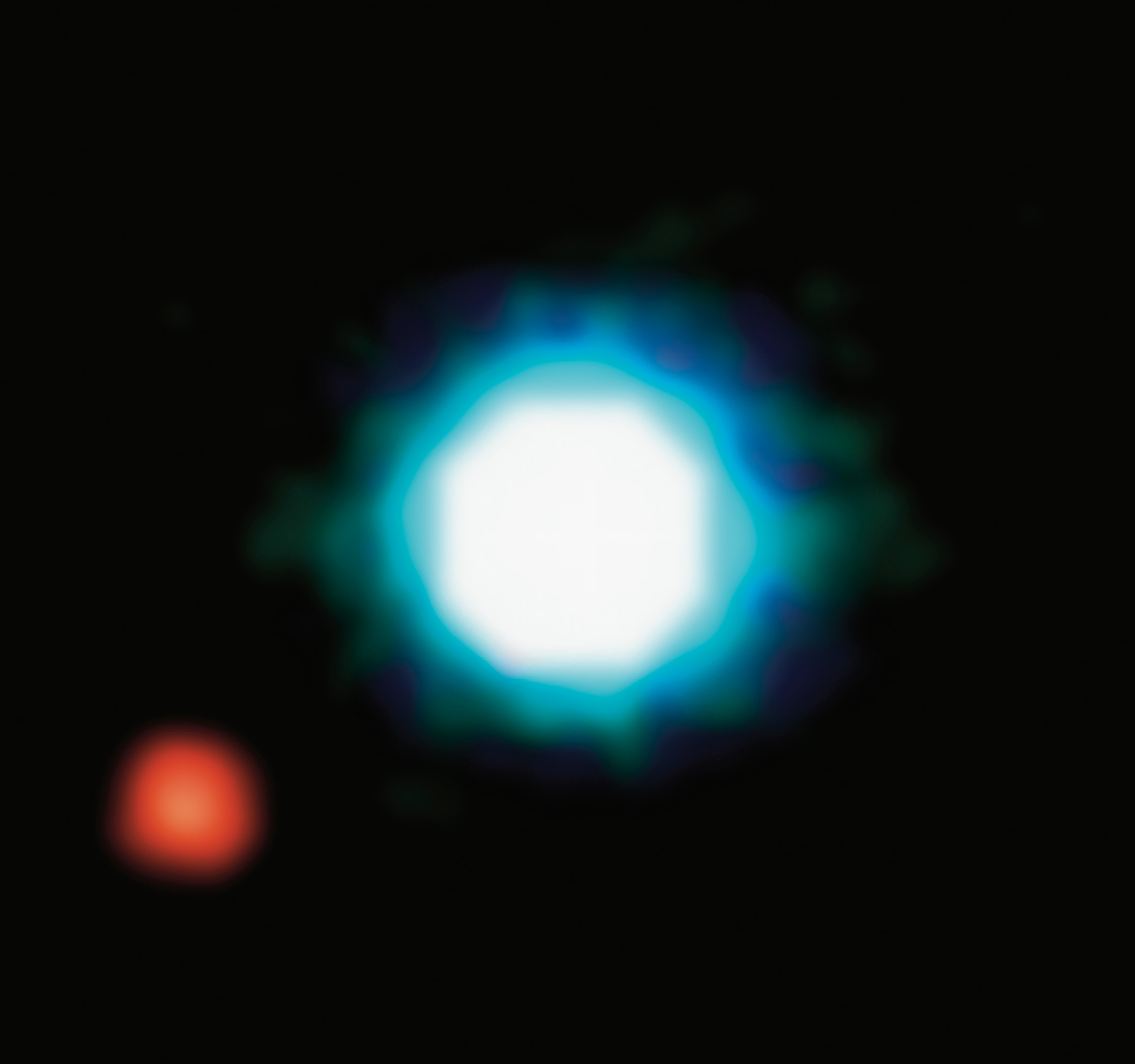 This composite image shows an exoplanet (the red spot on the lower left), orbiting the brown dwarf 2M1207 (centre). 2M1207b is the first exoplanet directly imaged and the first discovered orbiting a brown dwarf. It was imaged the first time by the VLT in 2004. Its planetary identity and characteristics were confirmed after one year of observations in 2005. 2M1207b is a Jupiter-like planet, 5 times more massive than Jupiter. It orbits the brown dwarf at a distance 55& times larger than the Earth to the Sun, nearly twice as far as Neptune is from the Sun. The system 2M1207 lies at a distance of 230 light-years, in the constellation of Hydra. The photo is based on three near-infrared exposures (in the H, K and L wavebands) with the NACO adaptive-optics facility at the 8.2‑m VLT Yepun telescope at the ESO Paranal Observatory.